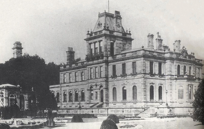 Endcliffe Hall in Sheffield, England, shortly after its completion in 1865. Note: This file was originally uploaded on 20 November 2009 by User:Mick Knapton to wikipedia.